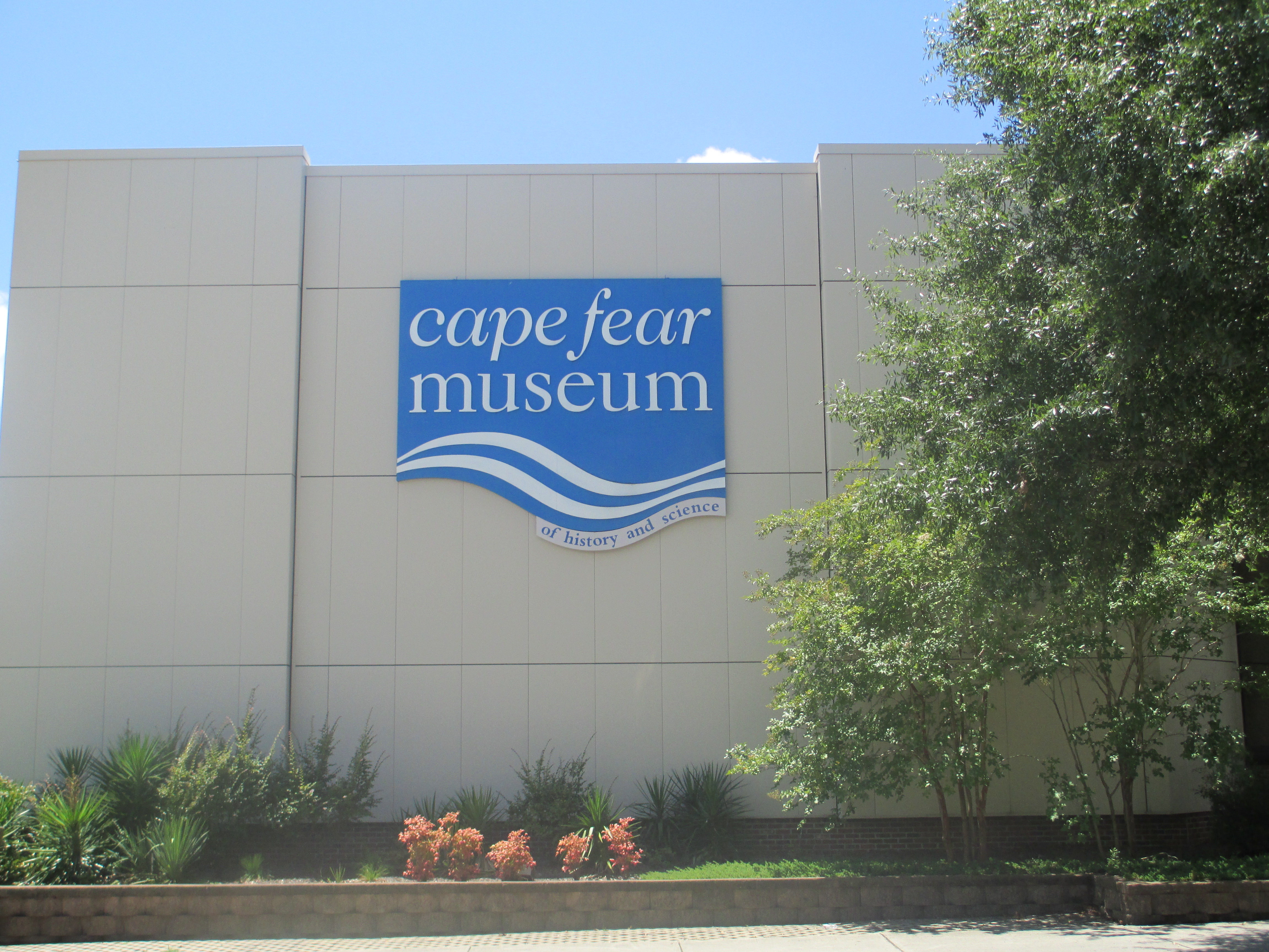 The Cape Fear Museum in Wilmington, North Carolina. Credits I took photo with Canon camera